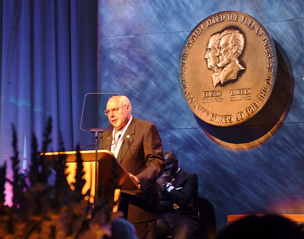 From NASA Goddard News website, Frank Cepollina at National Inventors Hall of Fame Induction Ceremony